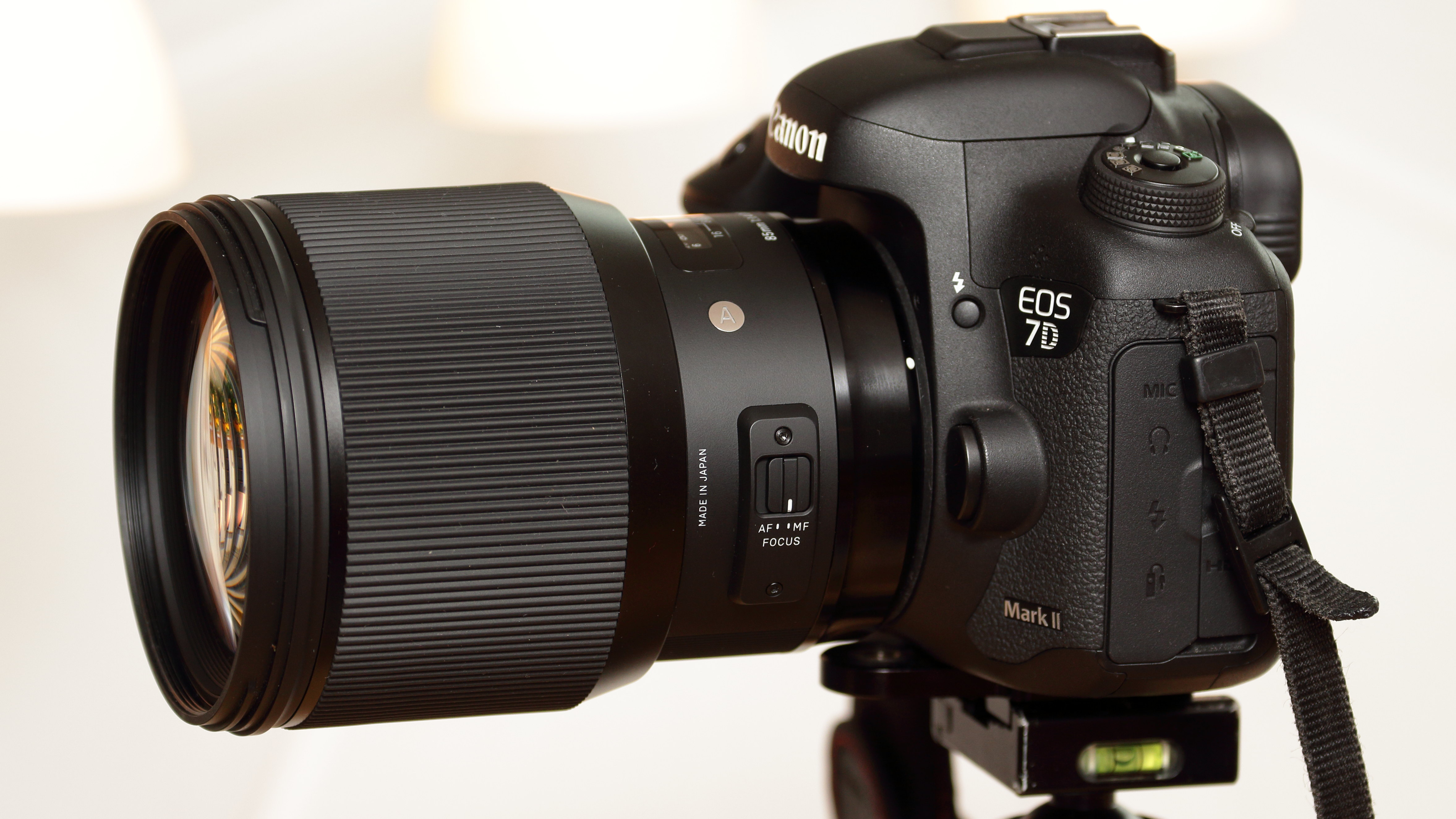 Sigma 85 f1.4 Art mounted on Canon EOS 7d Mk II, sideview